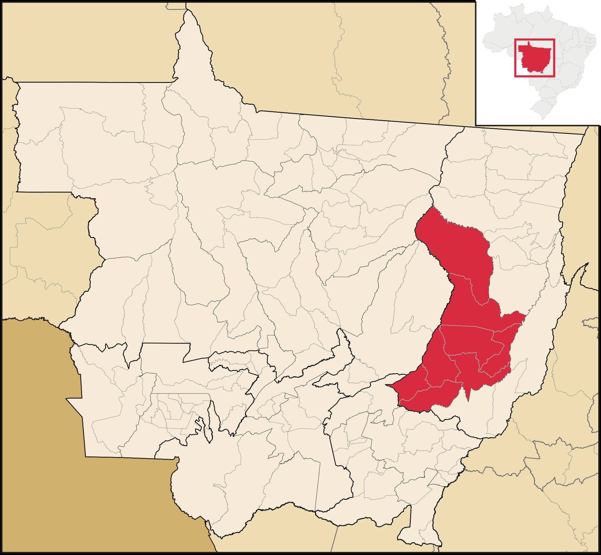 Map locator of MatoGrosso's Canarana microregion, Brazil.